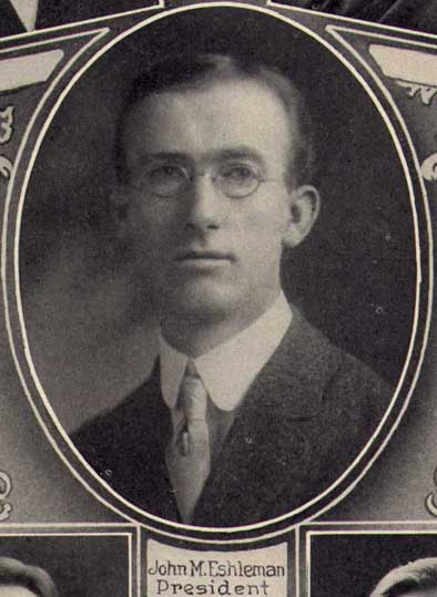 John Morton Eshleman in his student body president days at UC Berkley.